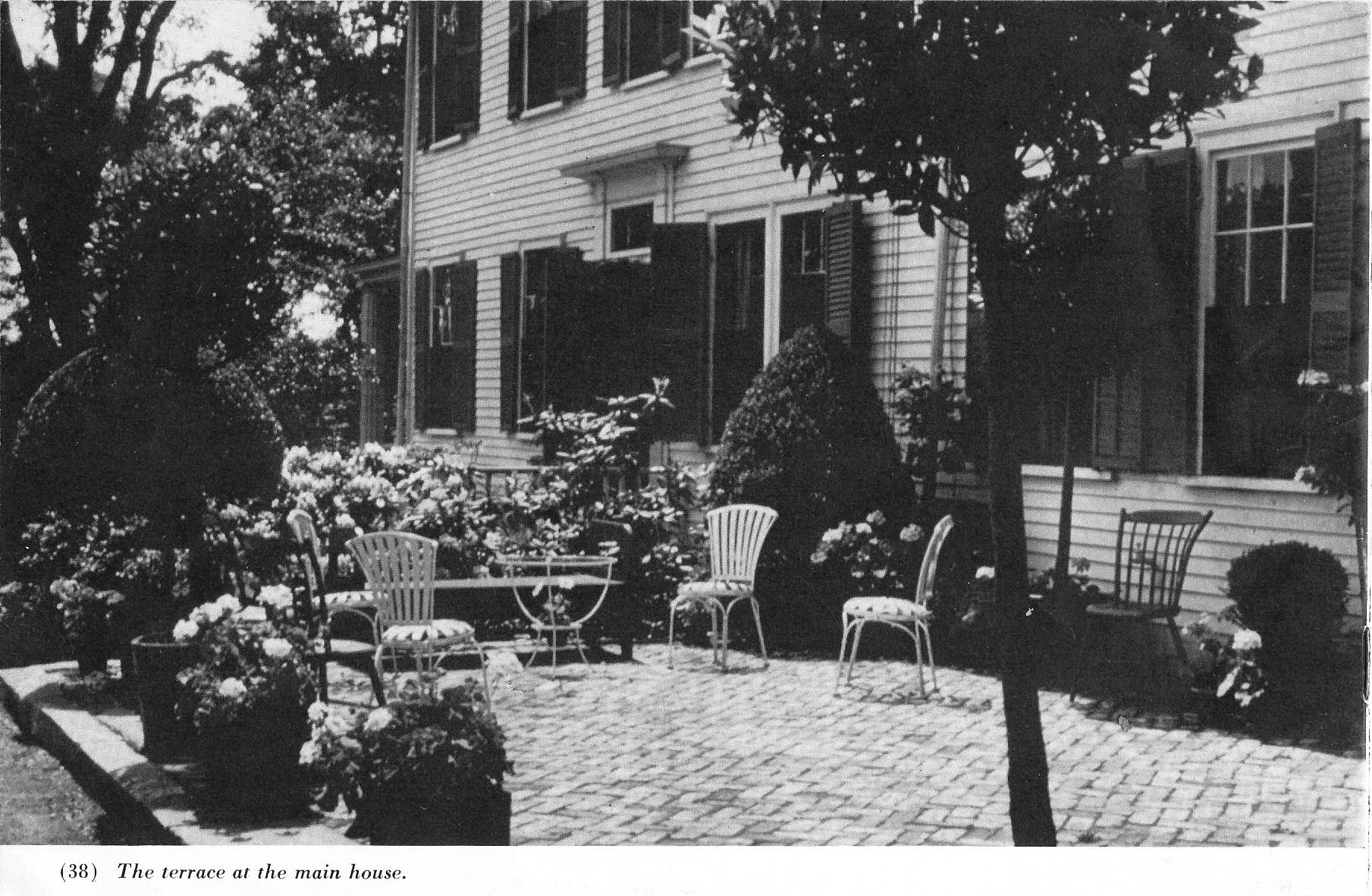 Scan by the contributor of page of early 1920s brochure of Lowthorpe School of Landscape Architecture attended by contributor's mother Doris Ogilvie.